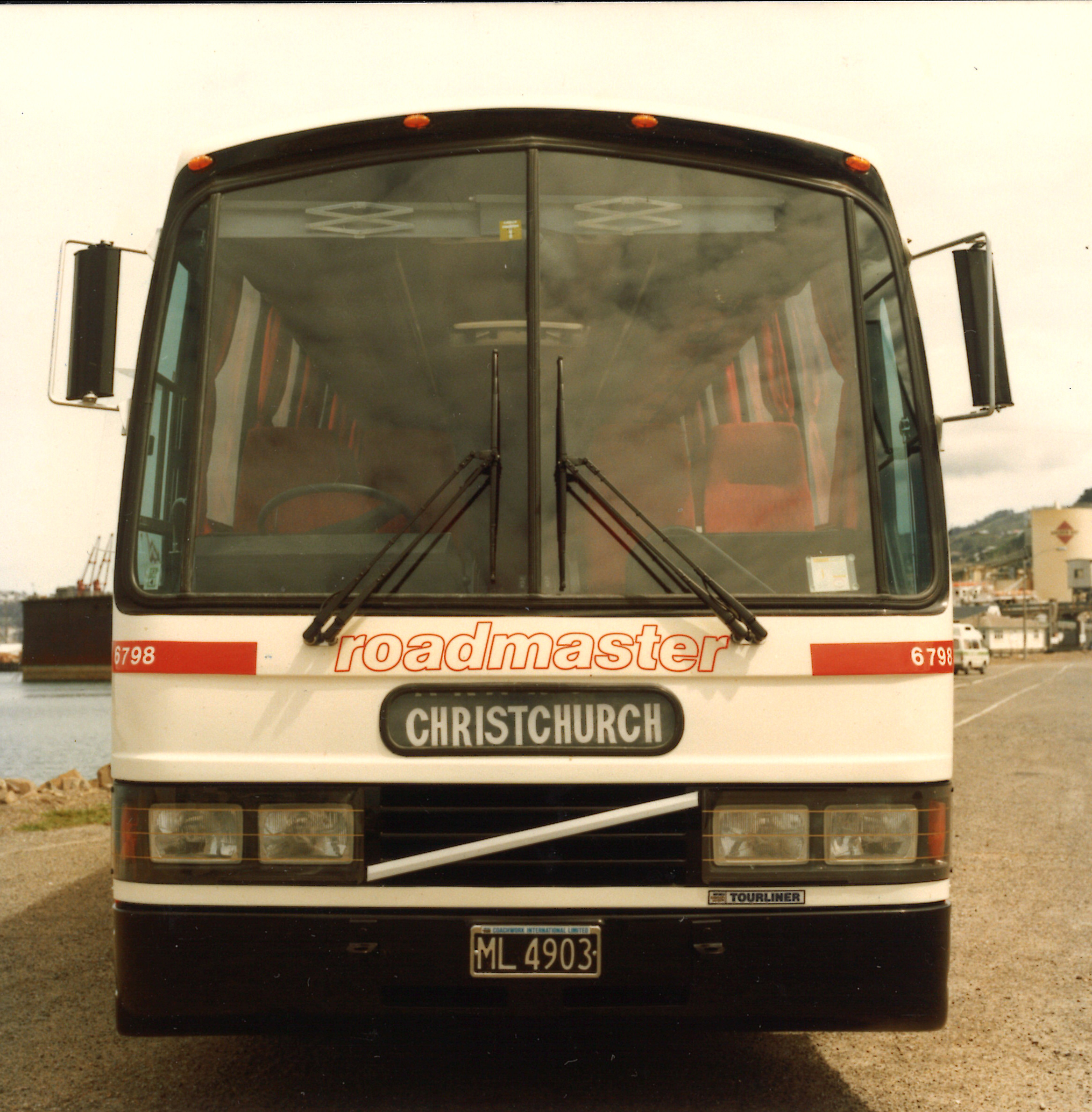 These images are from New Zealand Government Railways Department, General Manager's Office. The General Manager's office appears to have functioned as the Head Office of the department.